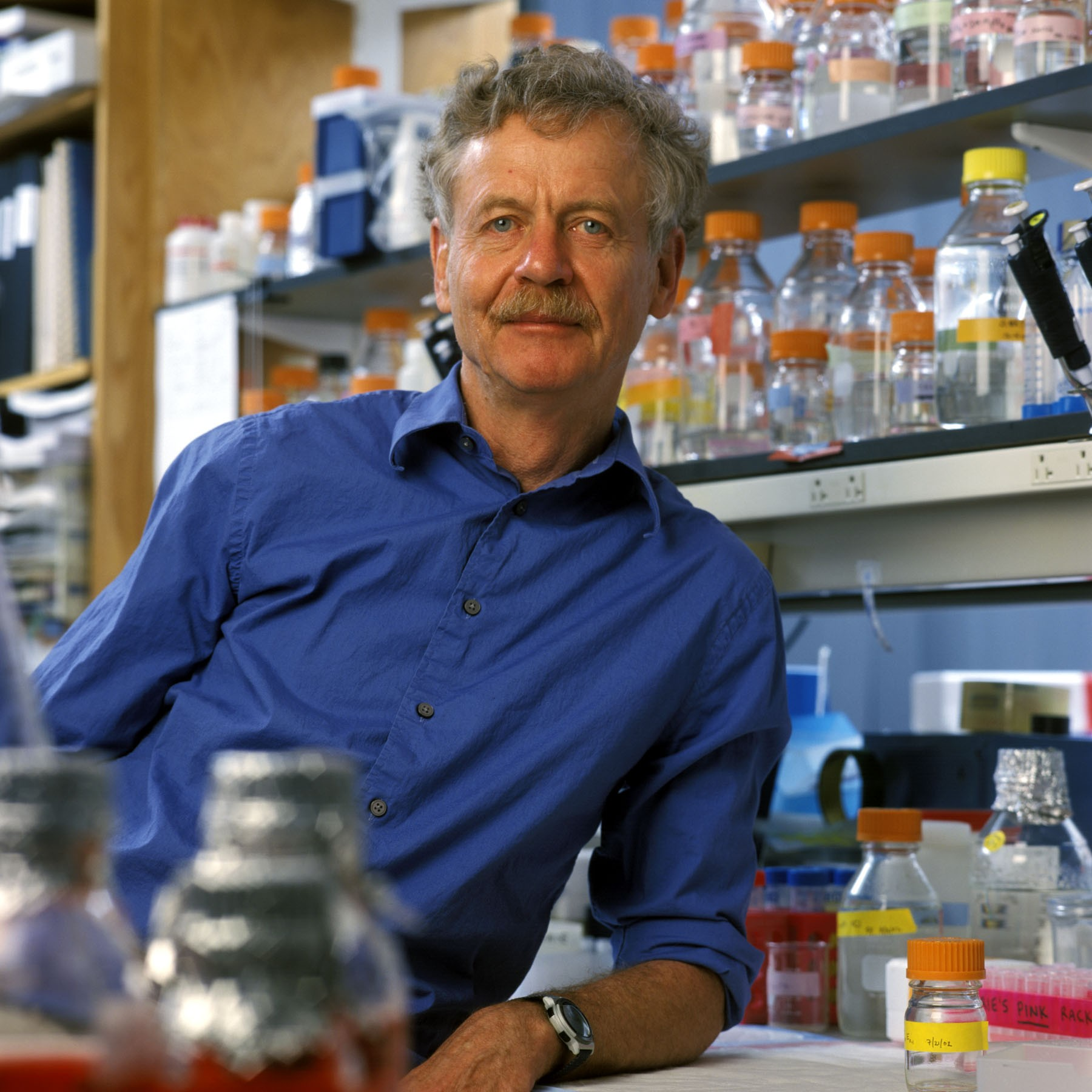 Portrait of Dr. Rudolf Jaenisch by Sam Ogden/Whitehead Institute